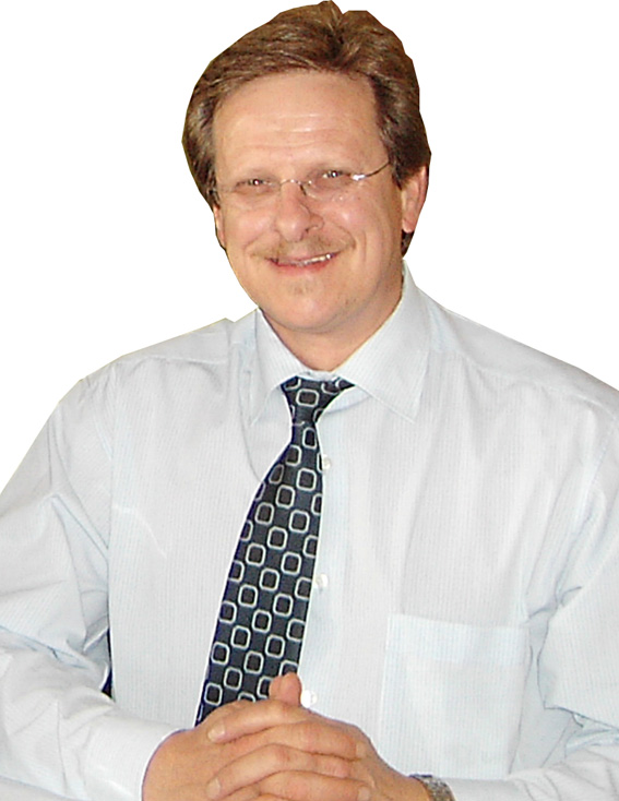 Theuns Botha, the Democratic Alliance leader in the West Cape Province.